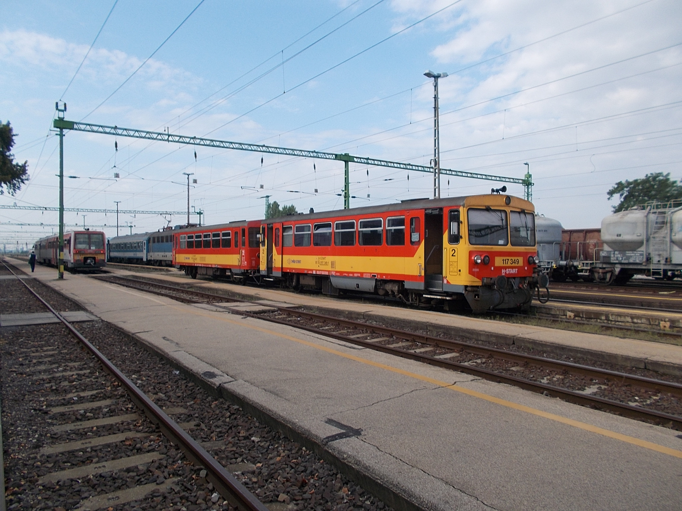 H-Start 117 349 and MÁV 6341 at Sárbogárd railway station- Sárbogárd, Fejér County, Hungary.